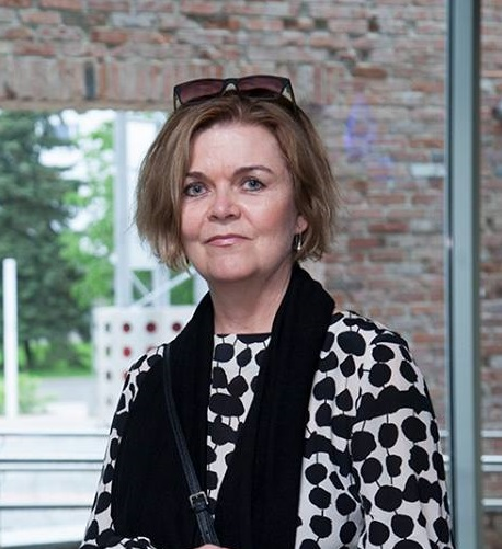 Kristín A. Árnadóttir